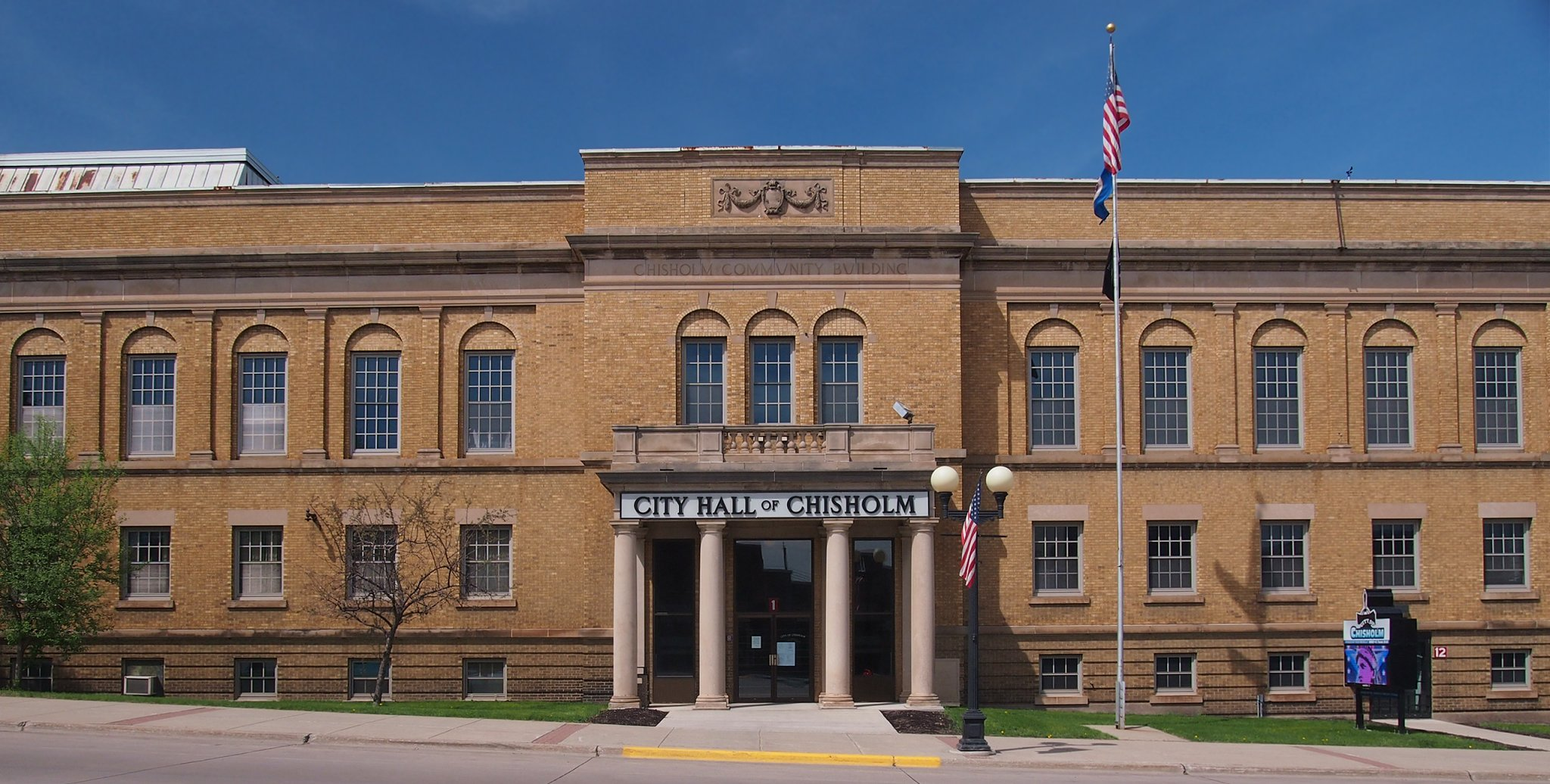 Chisholm City Hall (formerly the Chisholm Community Building), 316 W Lake St, Chisholm, Minnesota, USA. Viewed from the south-southwest. A contributing property to the Chisholm Commercial Historic District.